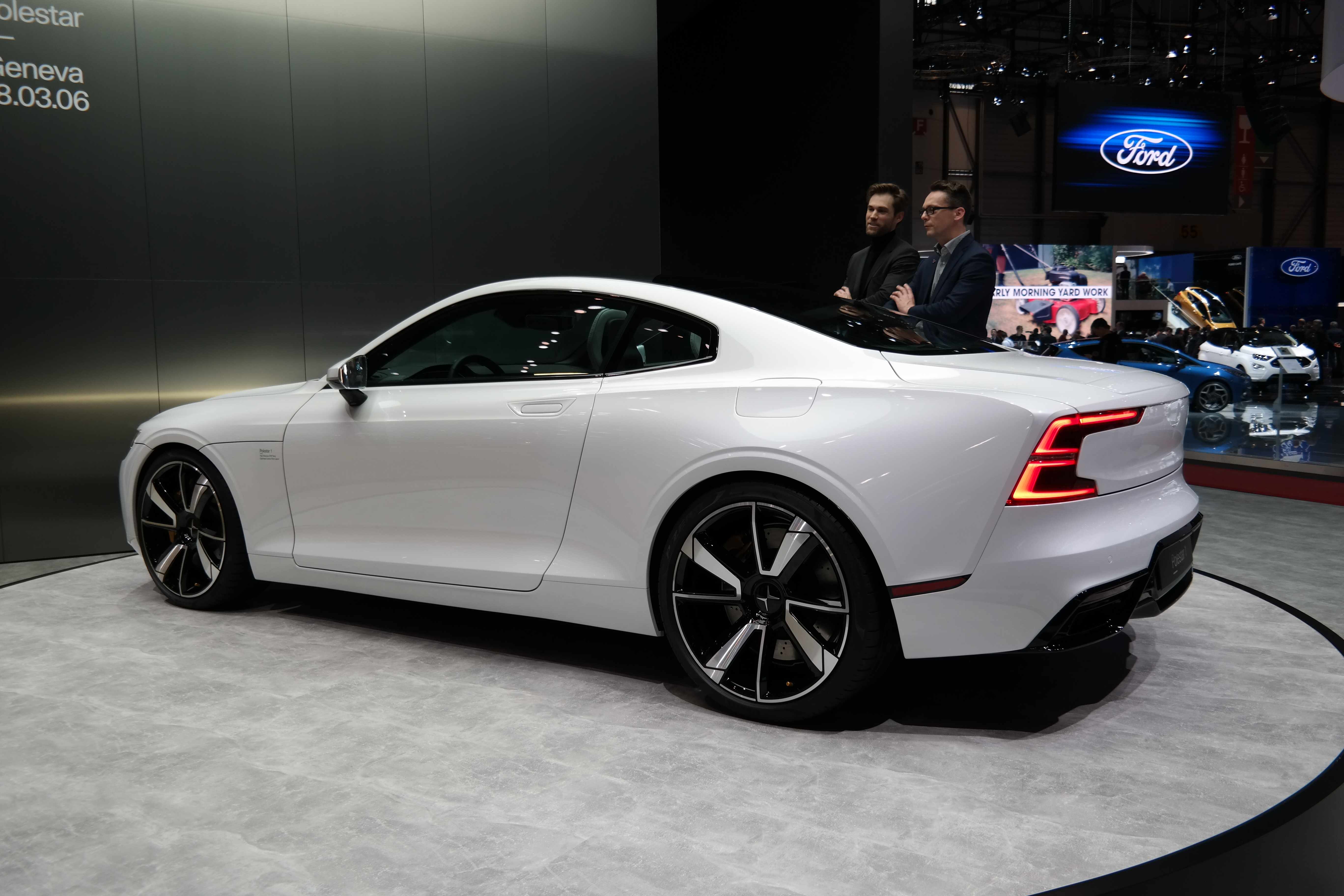 Geneva Motor Show 2018 (photo taken on the first press day)